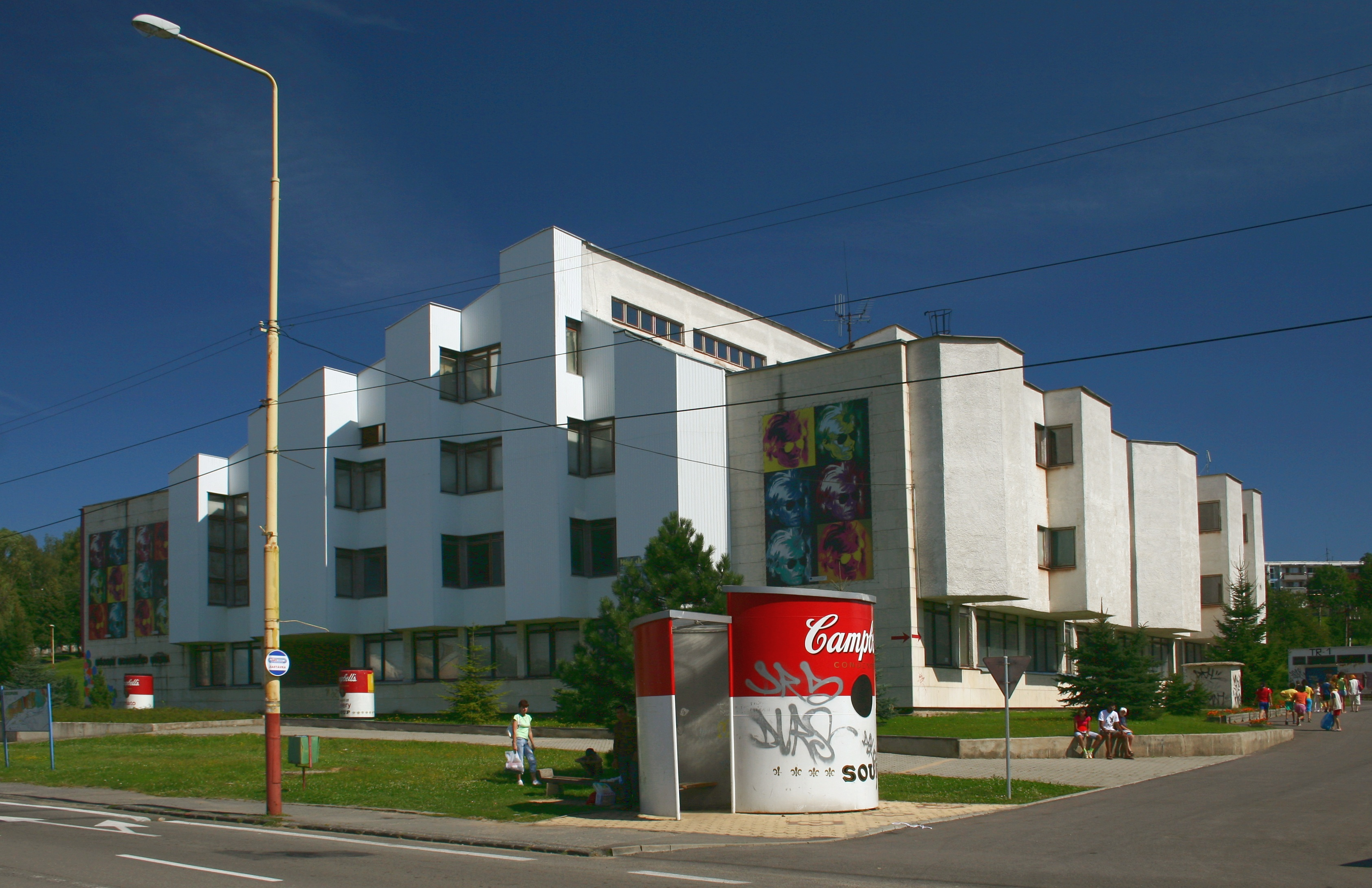 The Warhol Family Museum of Modern Art in Medzialborce, Slovakia